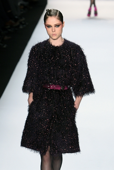 Coco Rocha, in Bill Blass by Peter Som